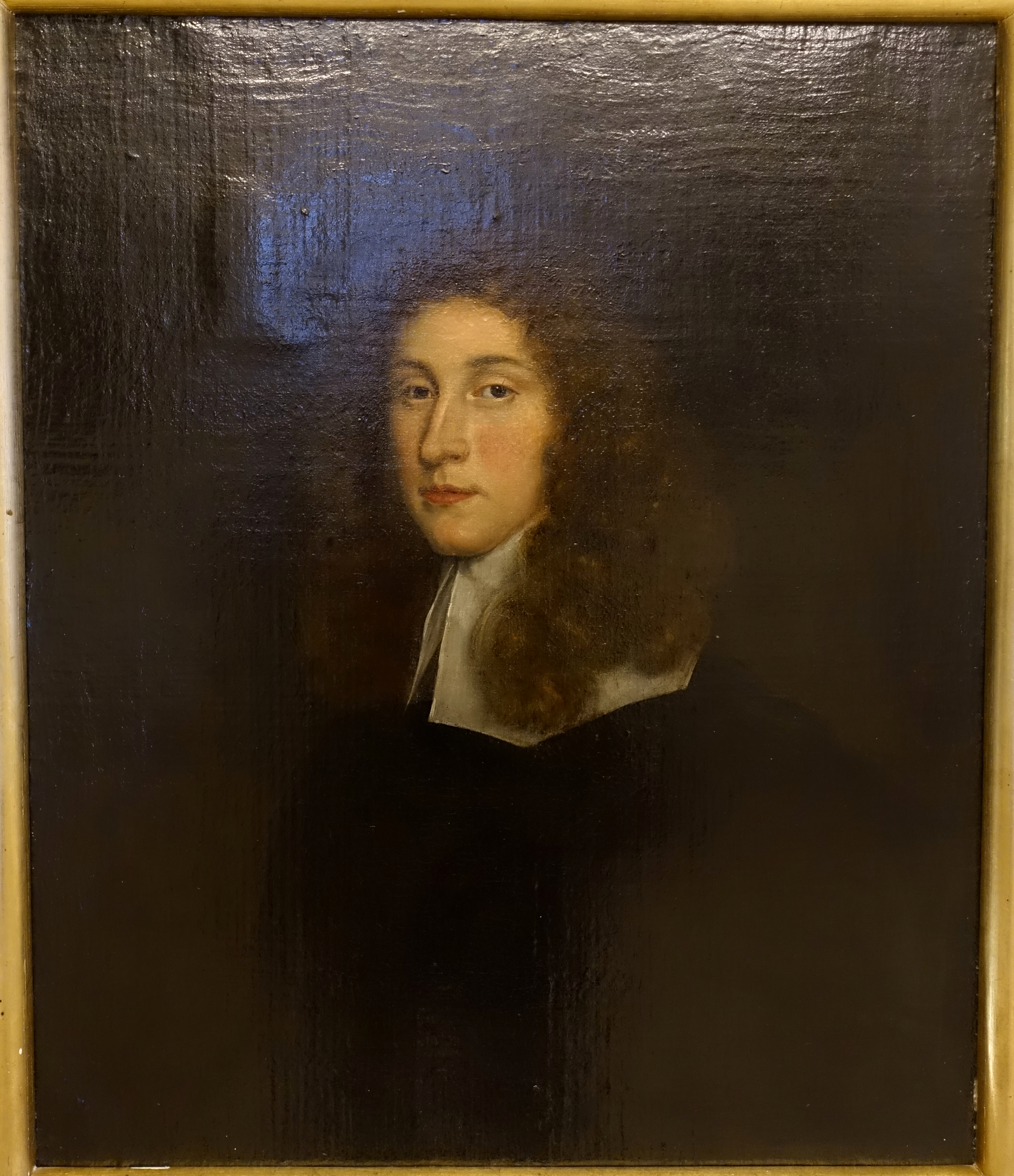 Exhibit in the Stadtmuseum Fembohaus - Nuremberg, Germany.